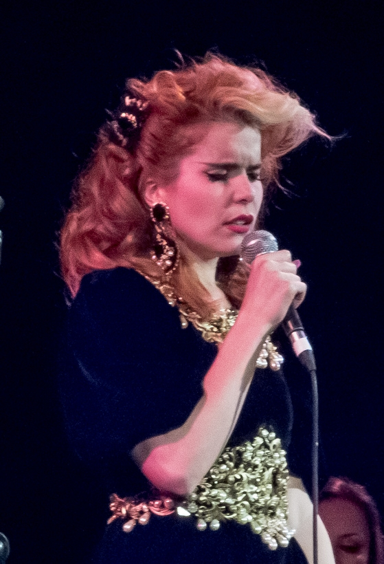 British singer Paloma Faith, live at the Union Chapel (November 23, 2012). Camera: Fujifilm FinePix F600EXR License on Flickr (2012-12-18): CC-BY-2.0 Flickr tags: Dirty Pretty Strings, Paloma Faith, Carl Barat, Sophie Ellis-Bextor, Brett Anderson, Ed Harcourt, Kristina Train, Ian McCulloch